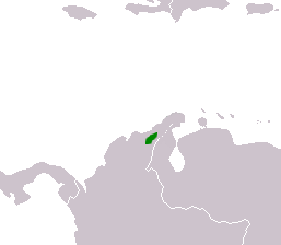 Map of the Damana (wiwa) language, from Colombia